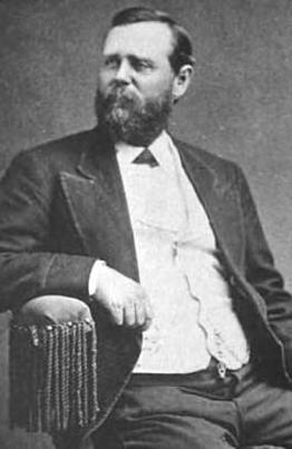 Personal Portrait of William P. Halliday, 1874